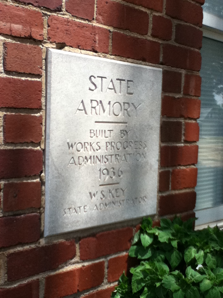 The Enid Armory cornerstone notes that the building was made by the WPA.